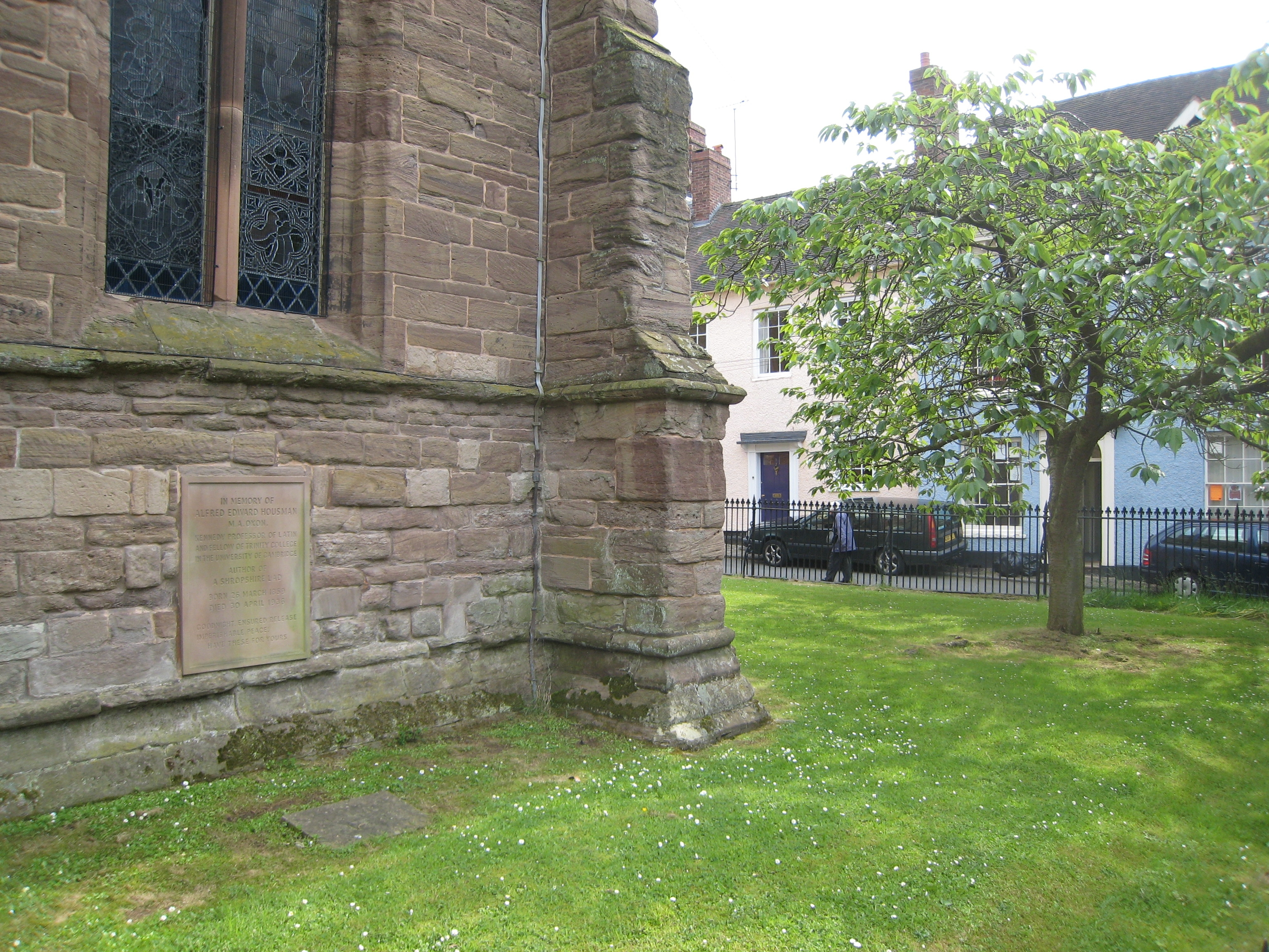 Housman's grave at St. Laurence's Church in Ludlow, Shrophire, England. Note the cherry tree planted in his memory (see A Shropshire Lad, II)